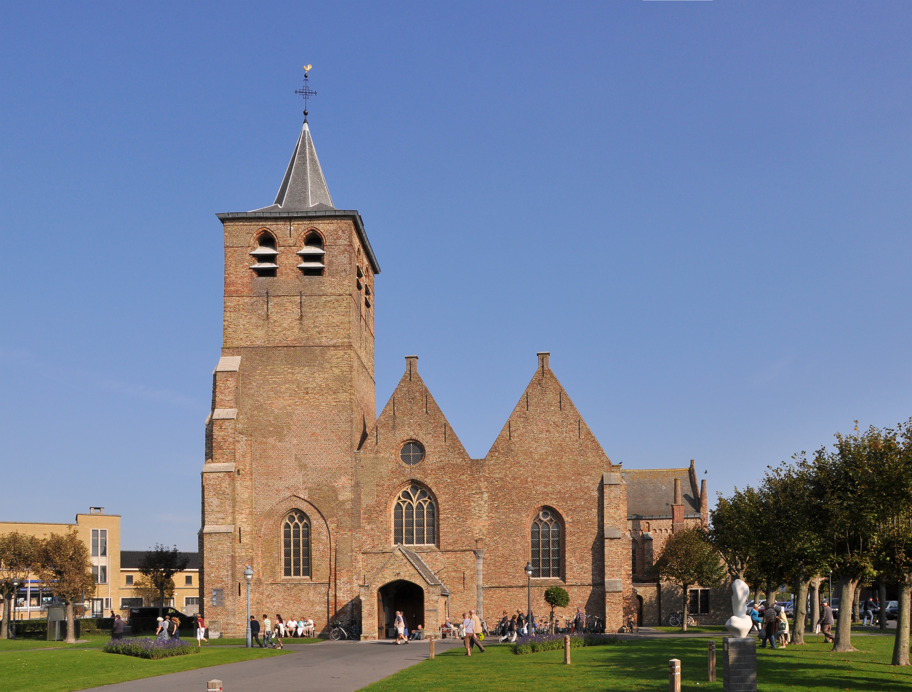 Blankenberge (Belgium): St Antonius church